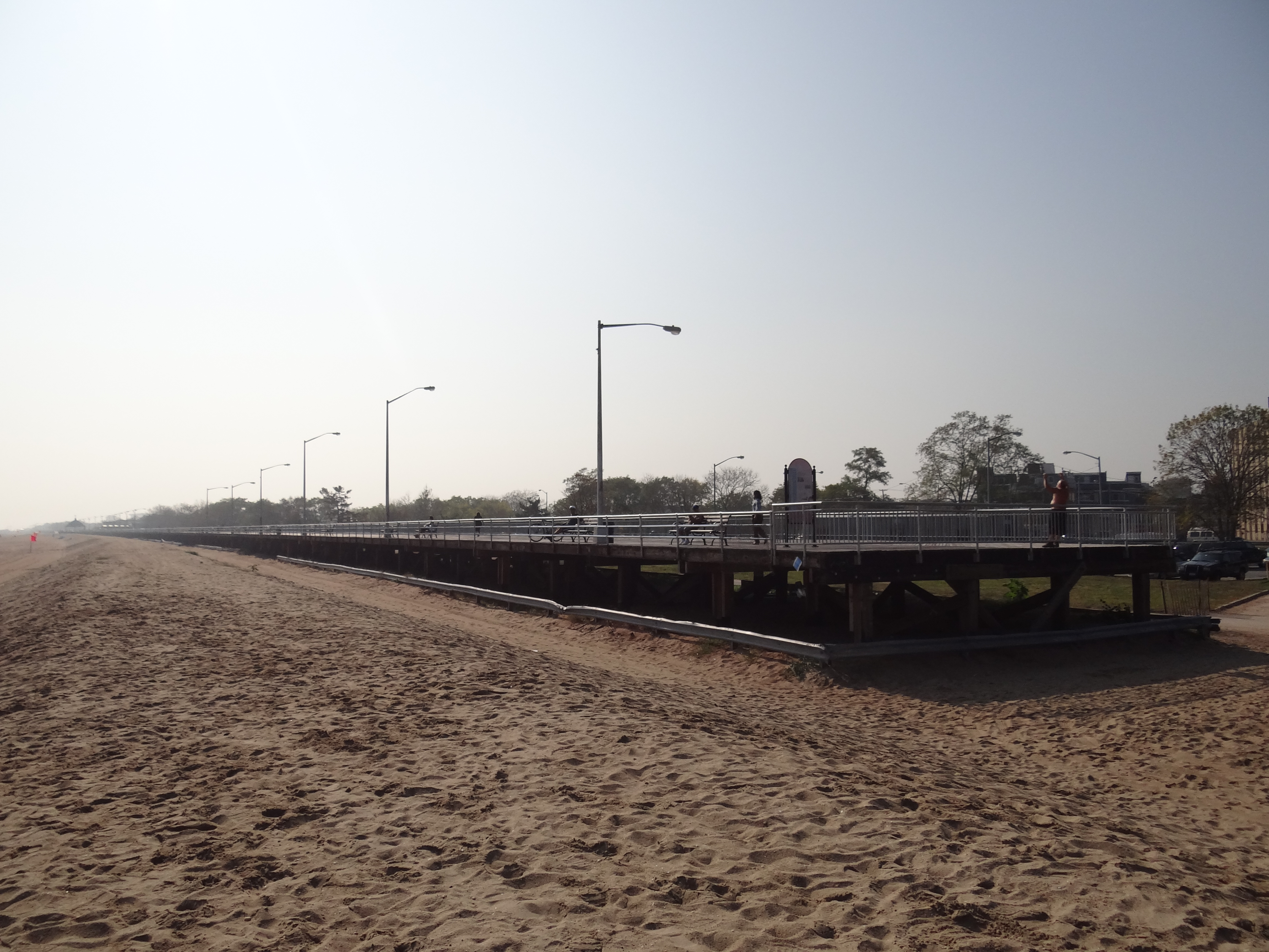 The start of the South Beach / FDR Boardwalk.